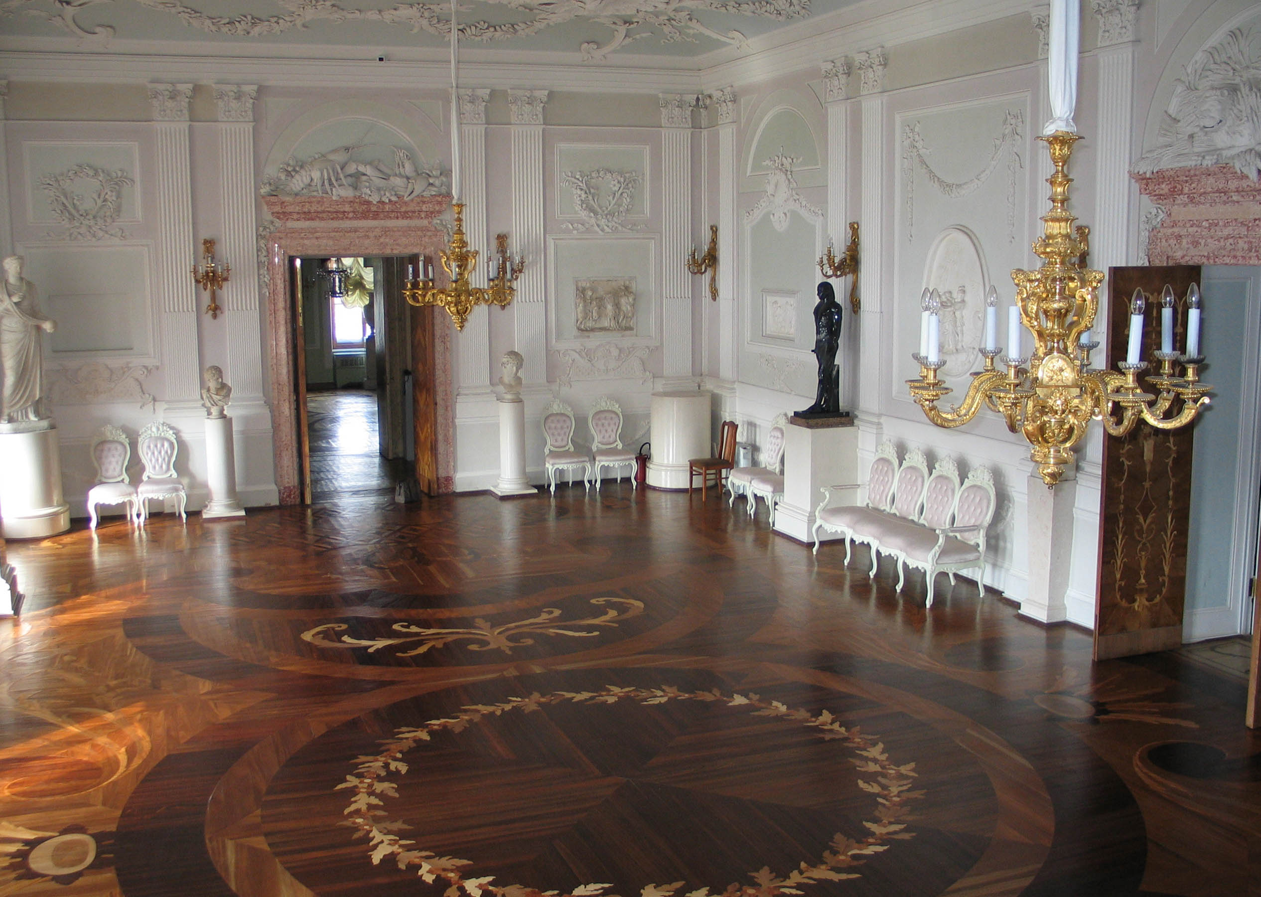 the White hall